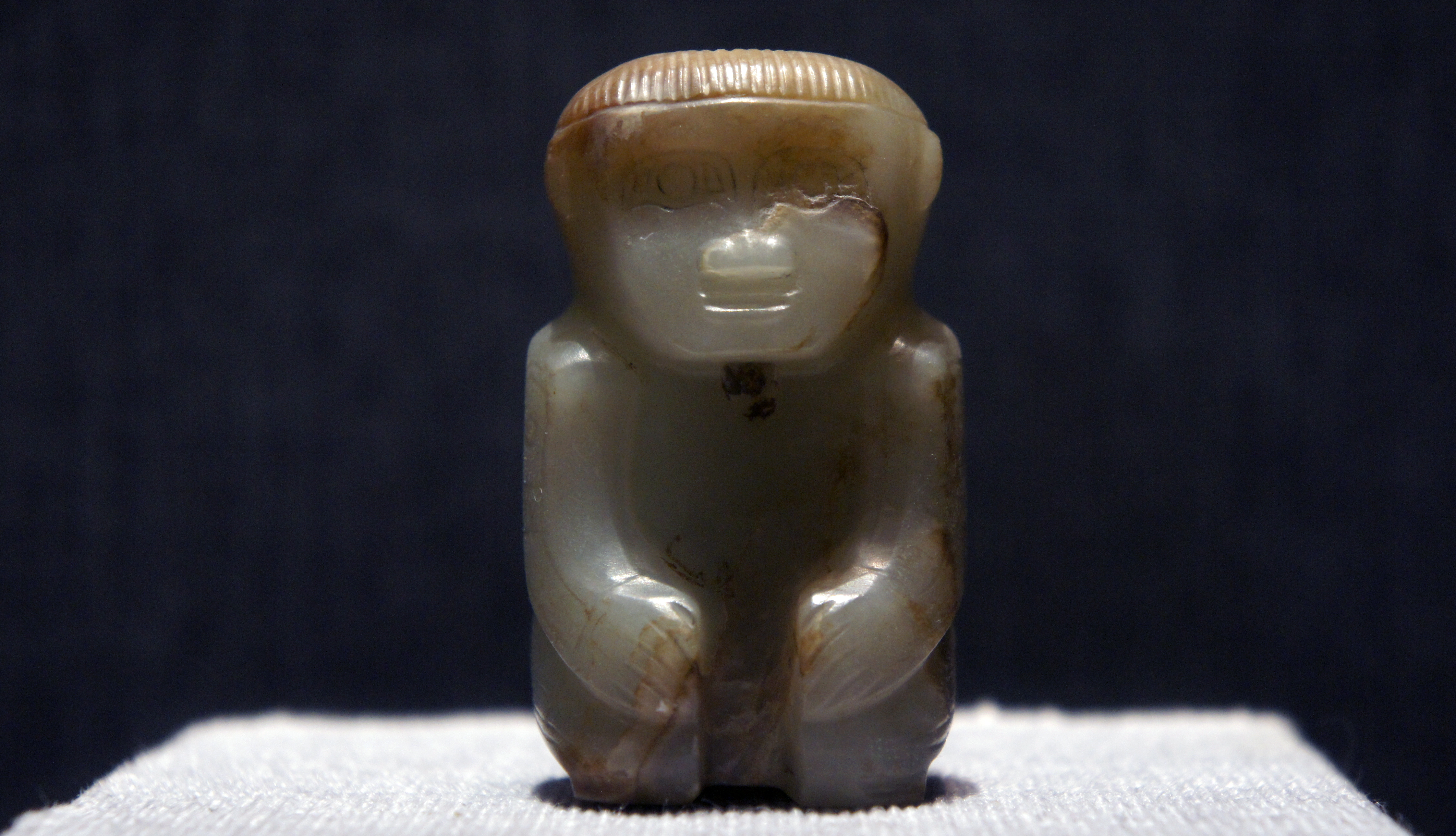 A closer look at Fu Hao Tomb's kneeling statue known as jade pei (玉佩), dated from late Shang dynasty (1300 BC-1046 BC). See also 1st picture